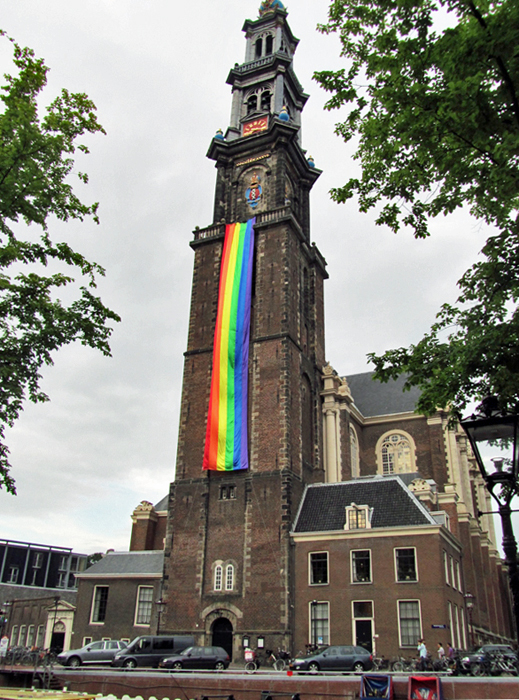 A giant rainbow flag hanging at the Westertoren in Amsterdam during Amsterdam Gay Pride 2012